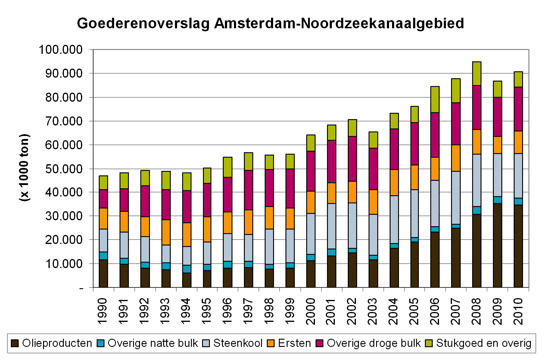 Cargo throughput by commodity in Amsterdam ports between 1990-2010. Source: Port of Amsterdam